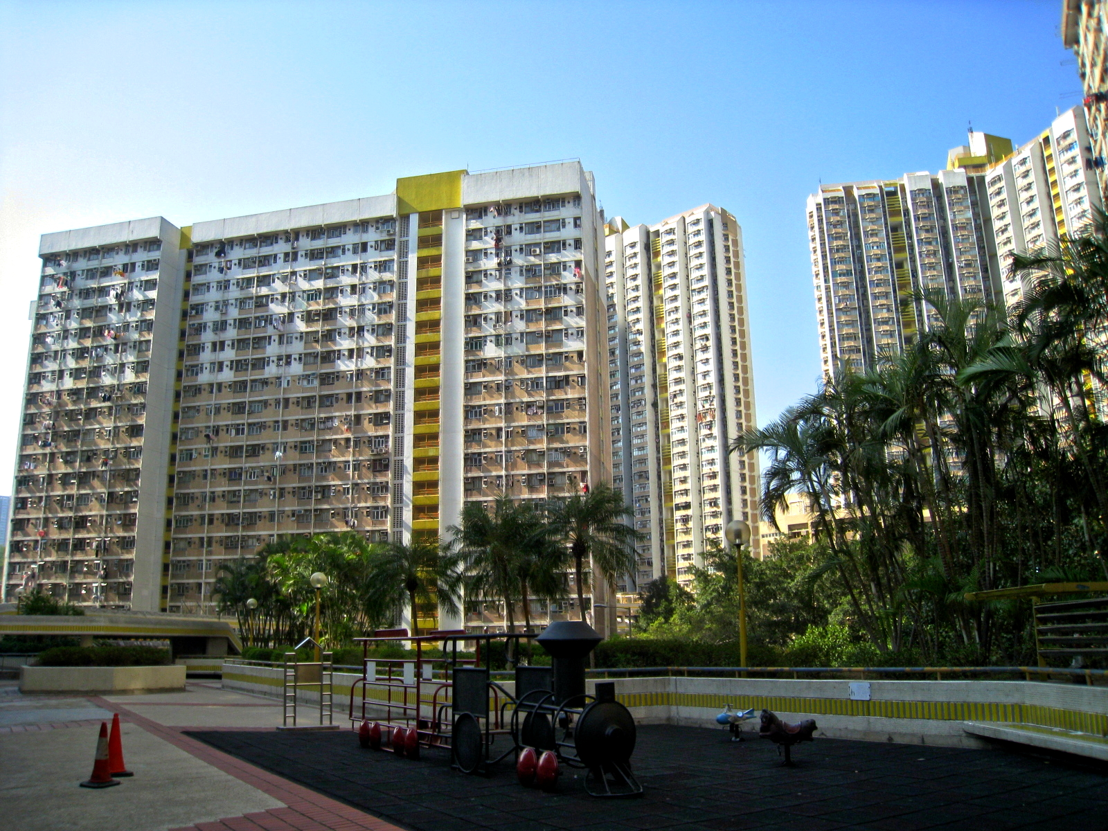 Cheung On Estate Entry Plaza 長安邨